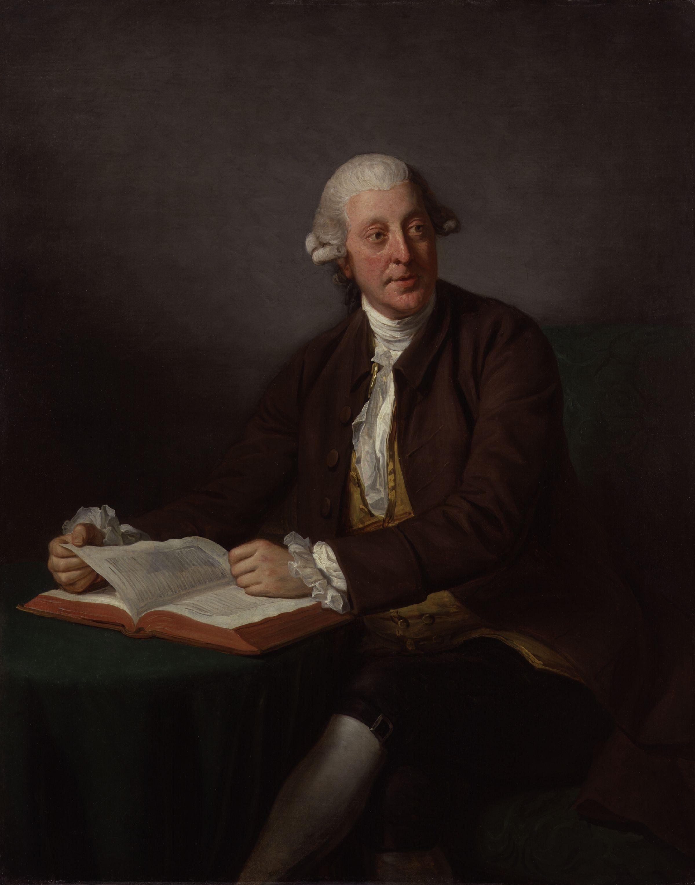 Arthur Murphy, by Nathaniel Dance, (later Sir Nathaniel Dance-Holland, Bt) (died 1811). All images in this batch have been confirmed as author died before 1939 according to the official death date listed by the NPG.